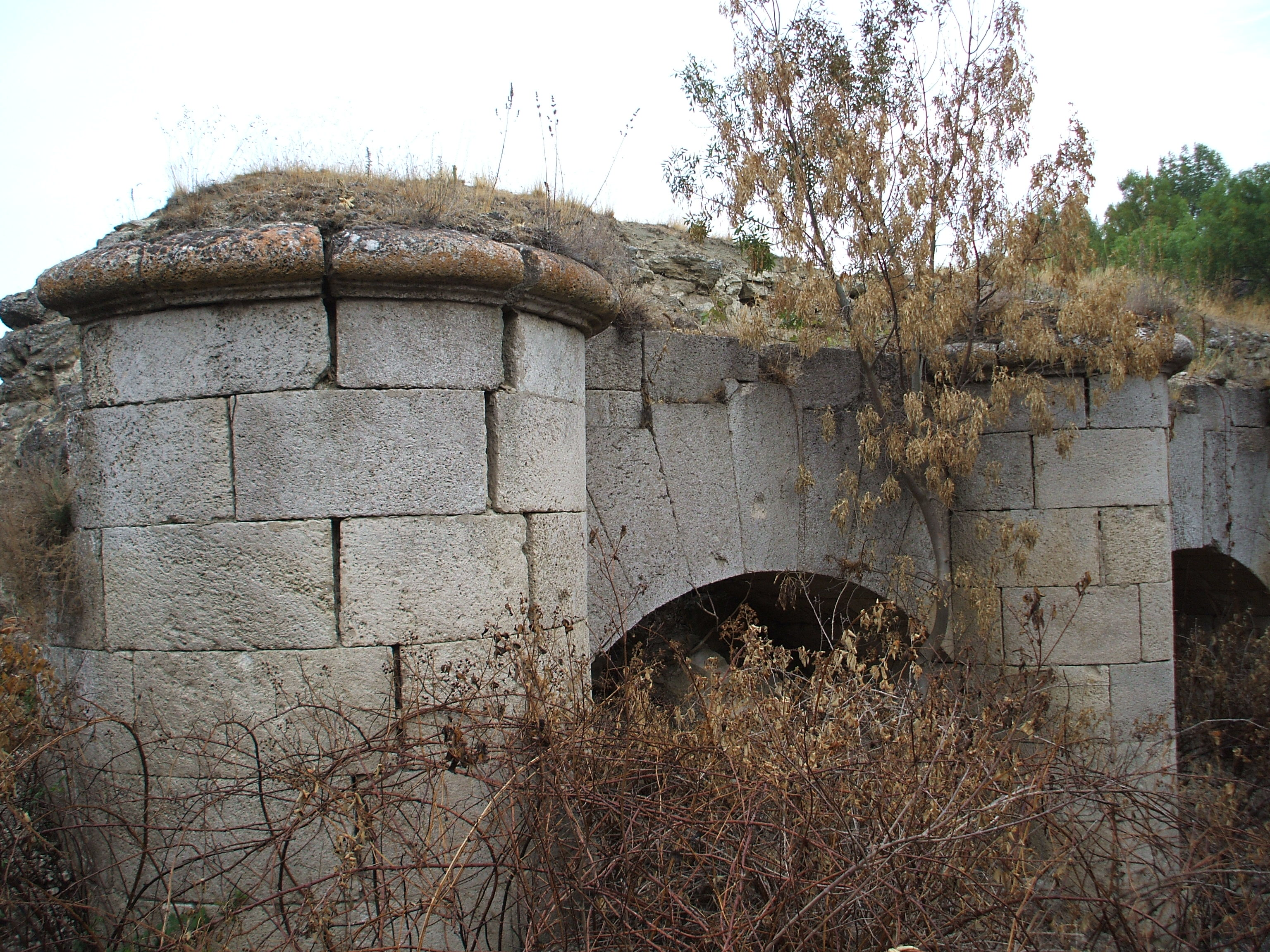 Укрепления в крепости Крым